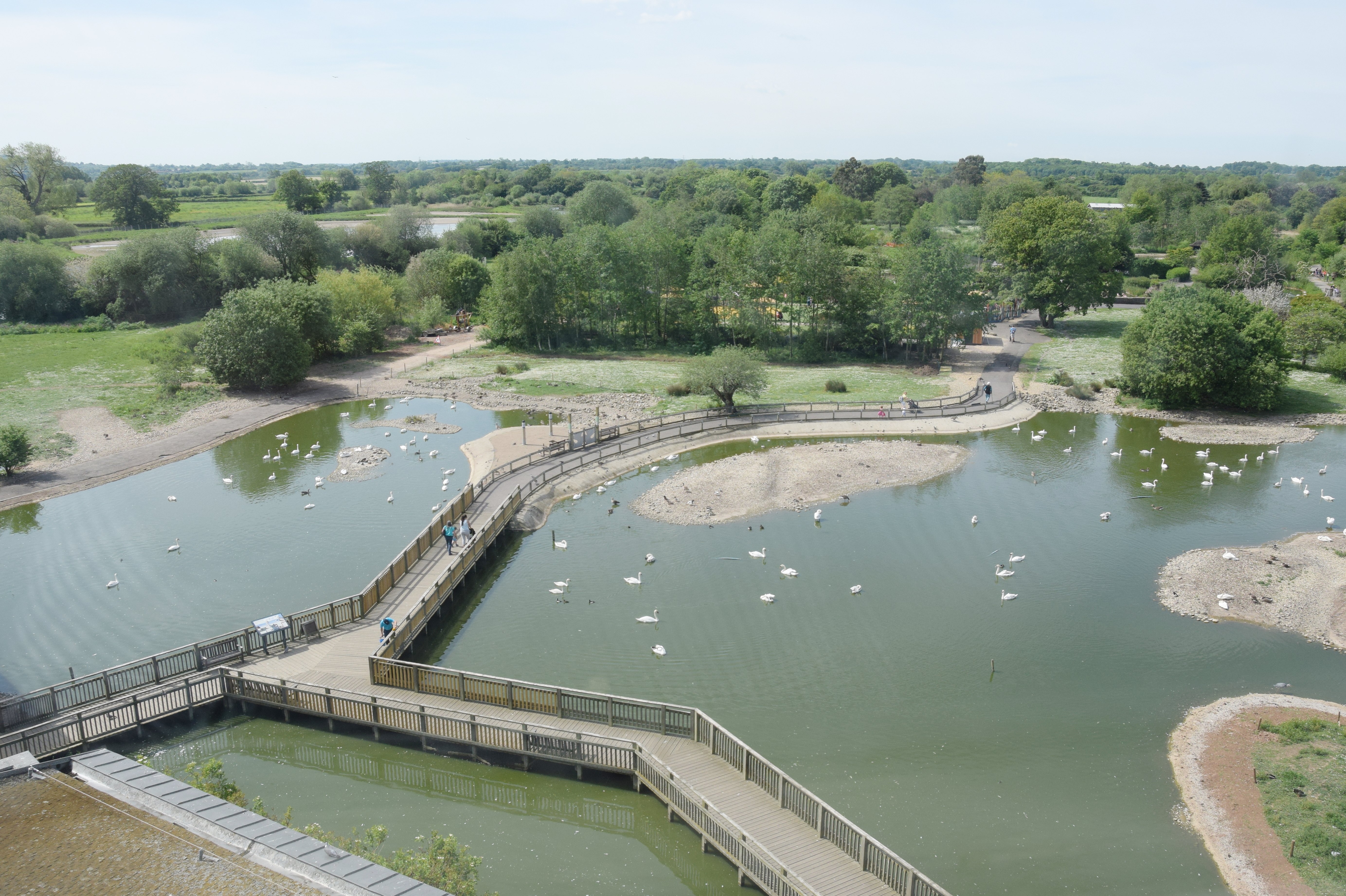 View in late spring of a small part of Slimbridge Wetland Centre, Gloucestershire, England. Looking east from the (free entry) Severn View observation tower.